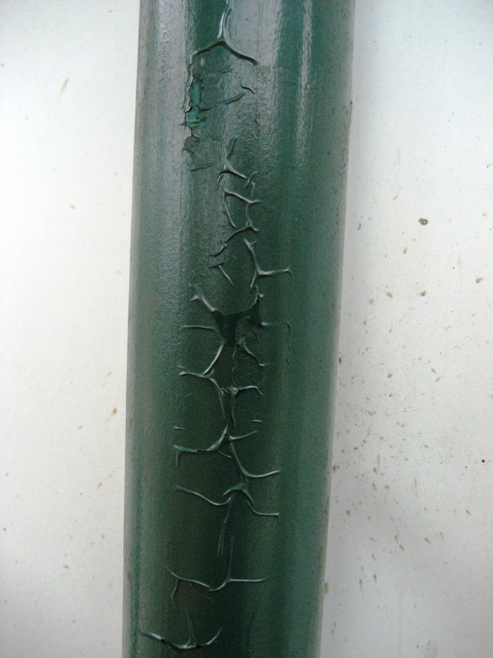 Painting Defect: Wrinkling of paint on bus stop structure. Sao Jose dos Campos, SP, Brazil